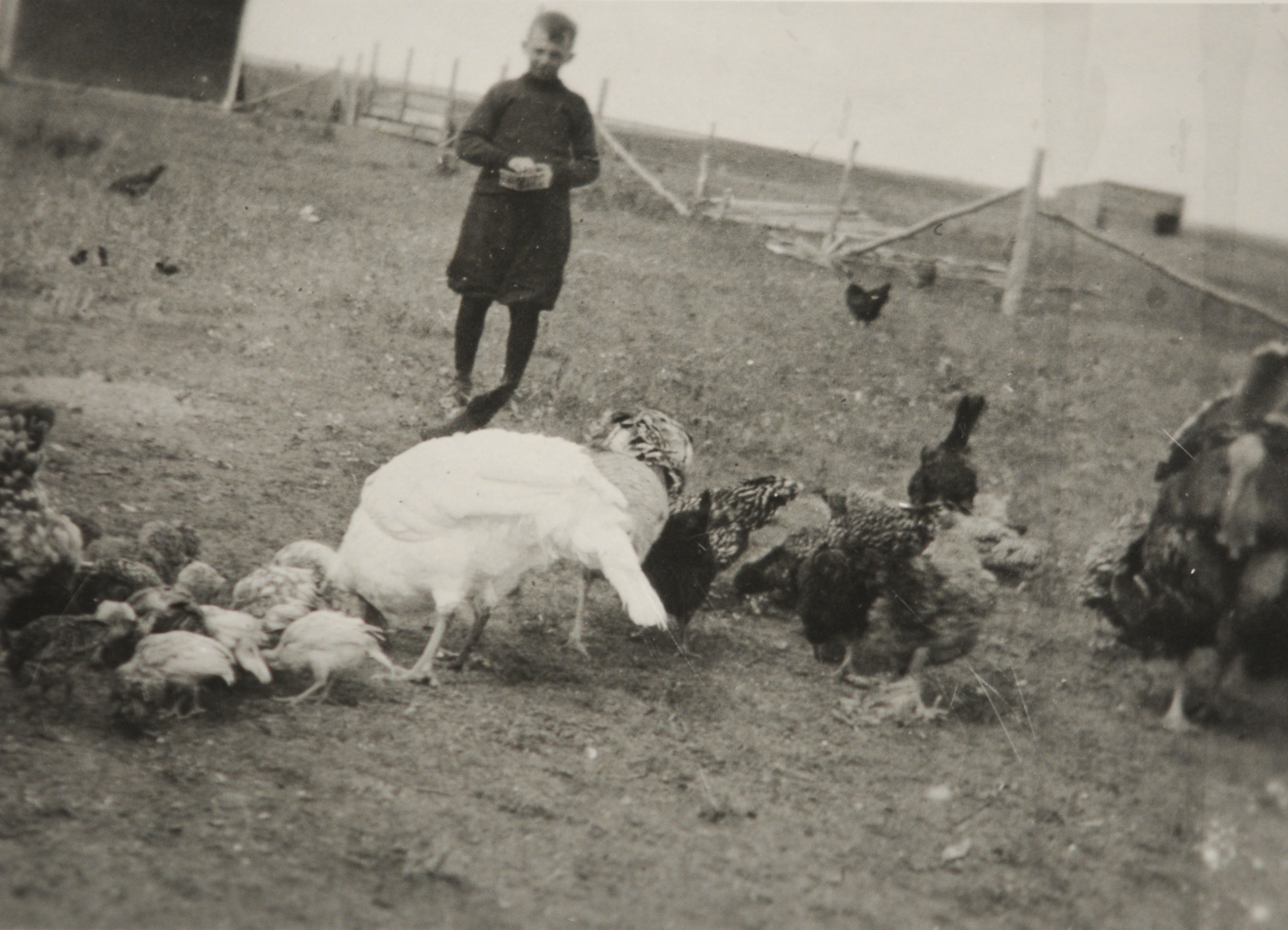 An archival image of a boy feeding chickens on a farm near Montmartre Saskatchewan in 1920.;Other information: Reference Number RA19917